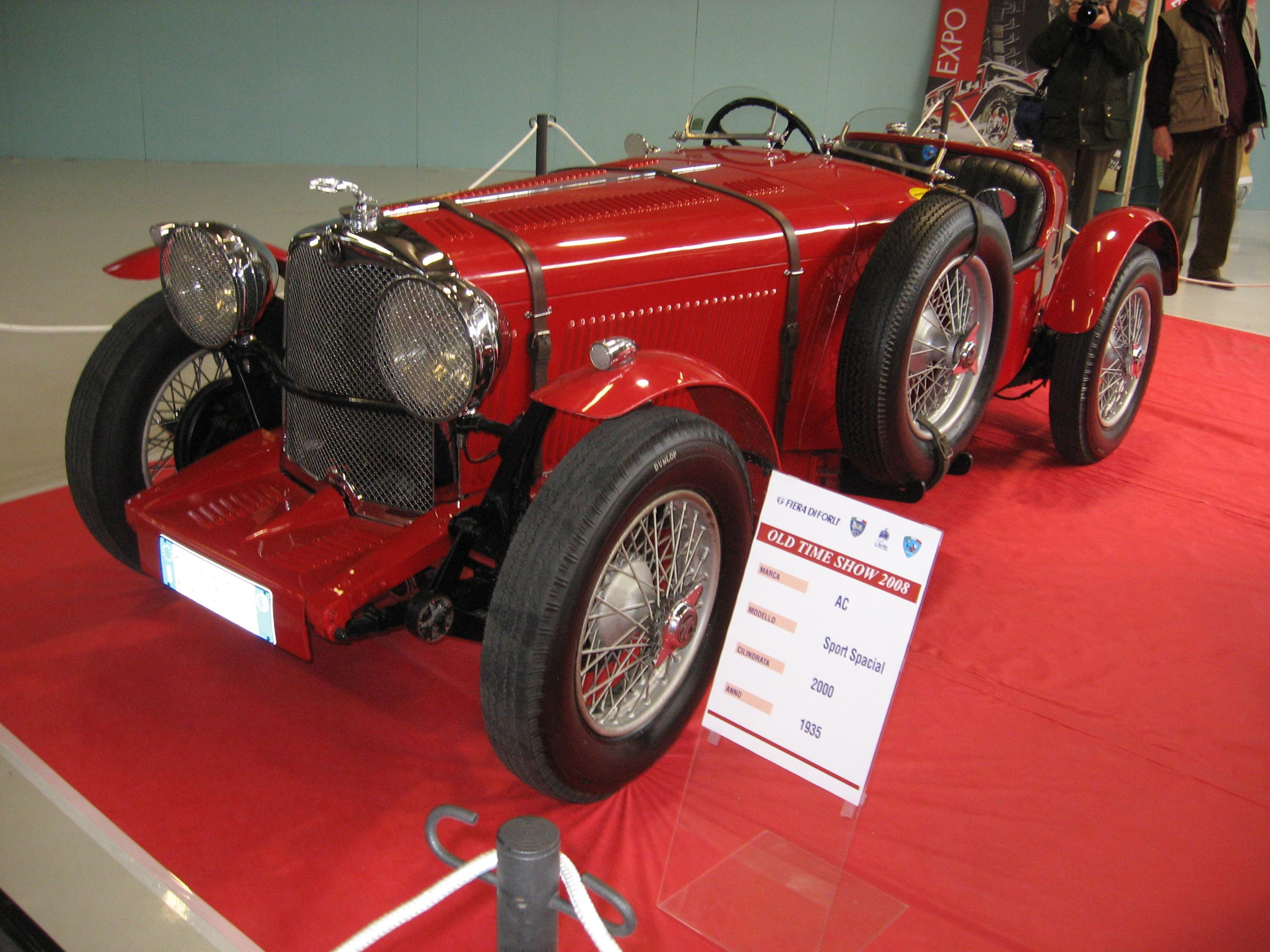 Subject: AC Sport Special Author:Luc106 Date:March 15th, 2007 Event:Old Timer Show 2008 Place/Country: Forlì, Italy I release all rights in the public domain.